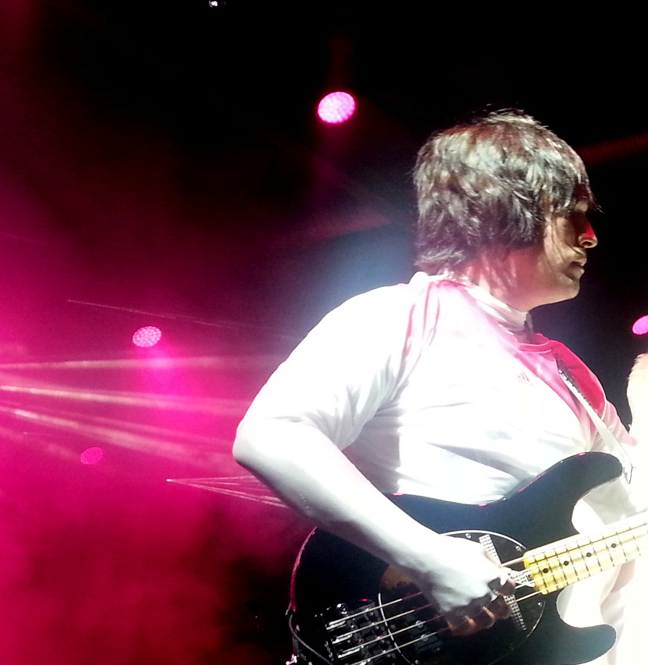 Carl-Johan Fogelklou during a 2014 Mando Diao concert in Berlin